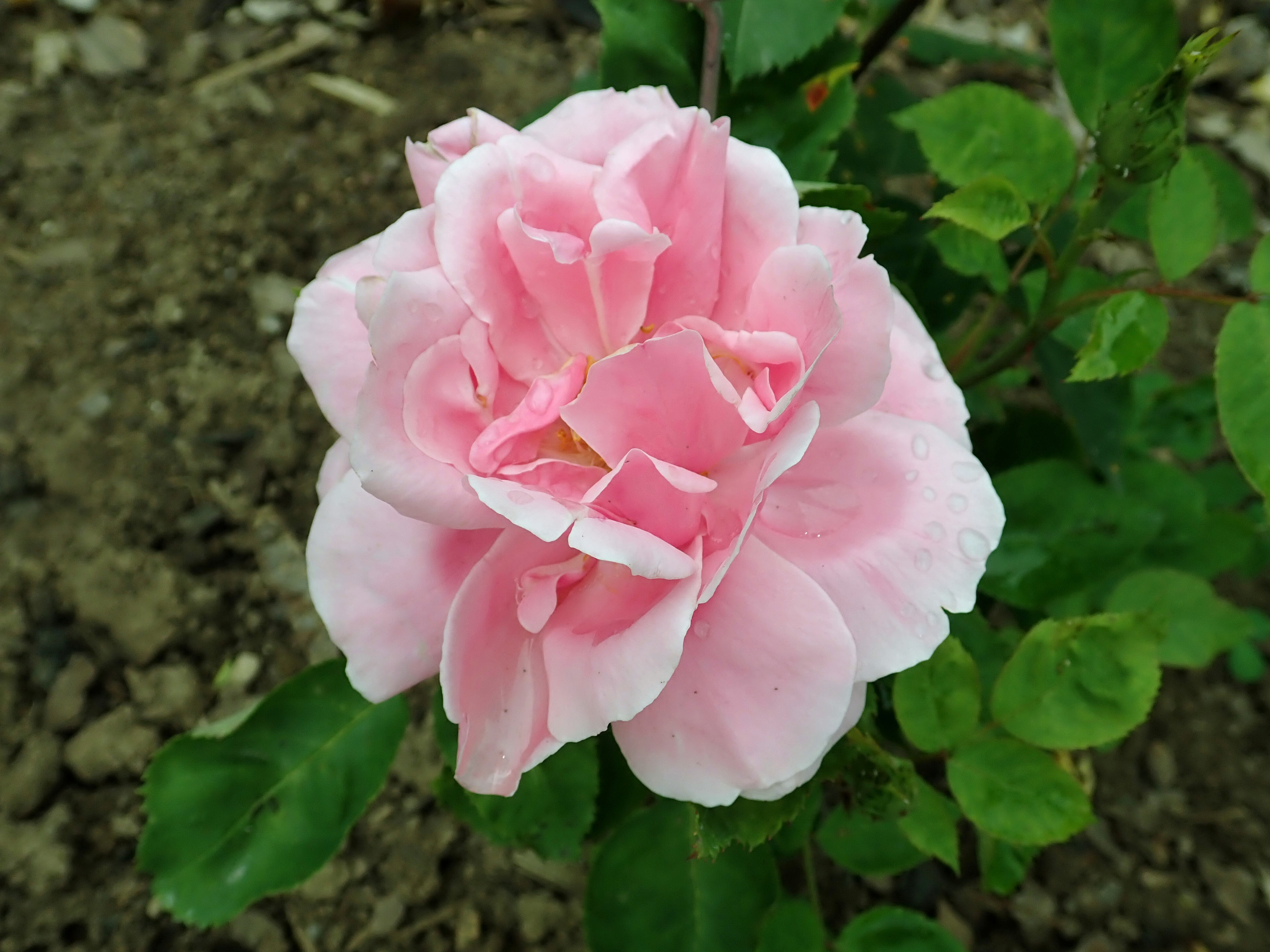 Rosa ‘Mlle. Eugénie Verdier’ (Guillot fils, 1869), Europa-Rosarium Sangerhausen.